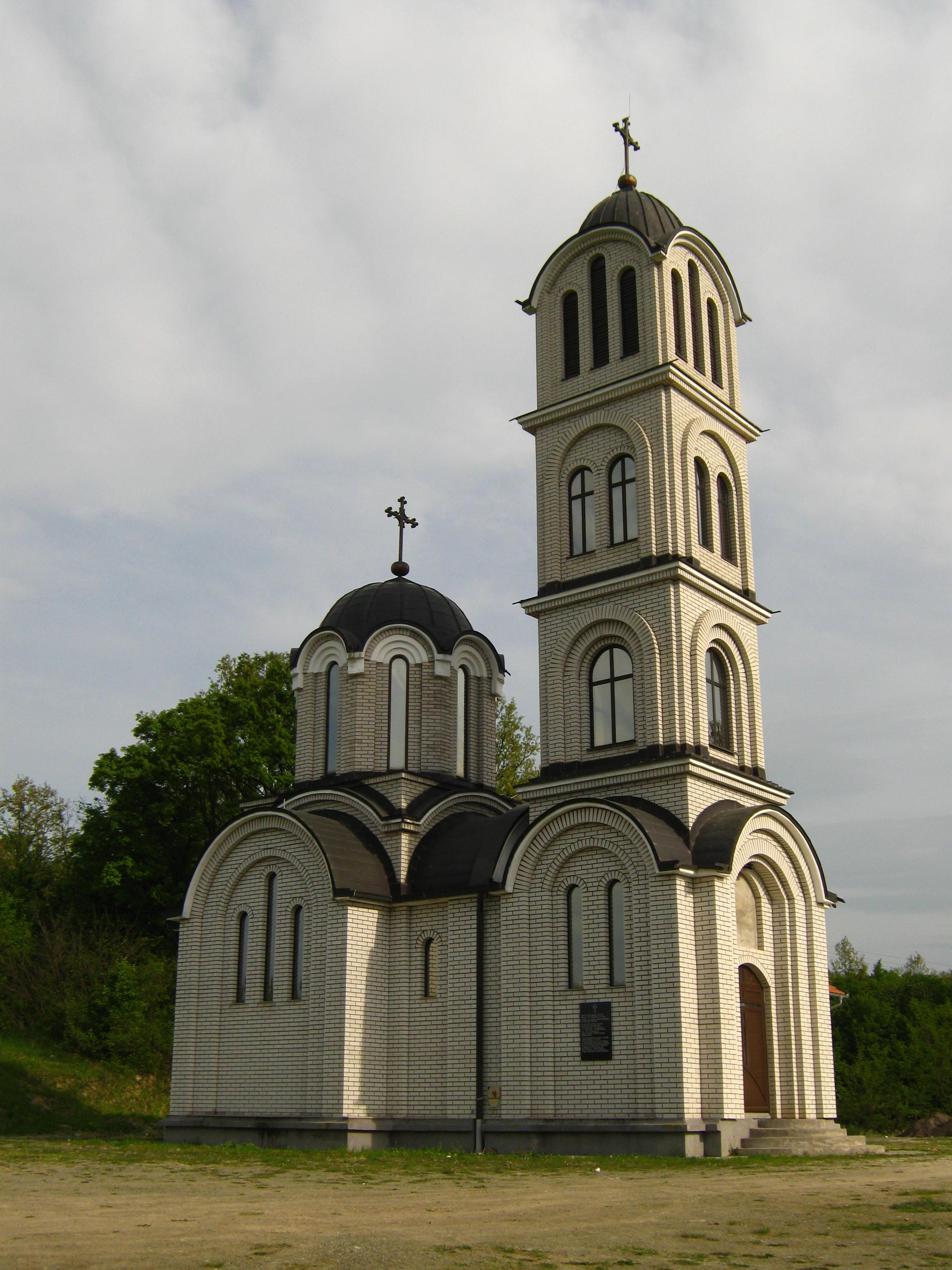 Orthodox Christian church in Vitkovci, a village near Teslic, Republic of Srpska